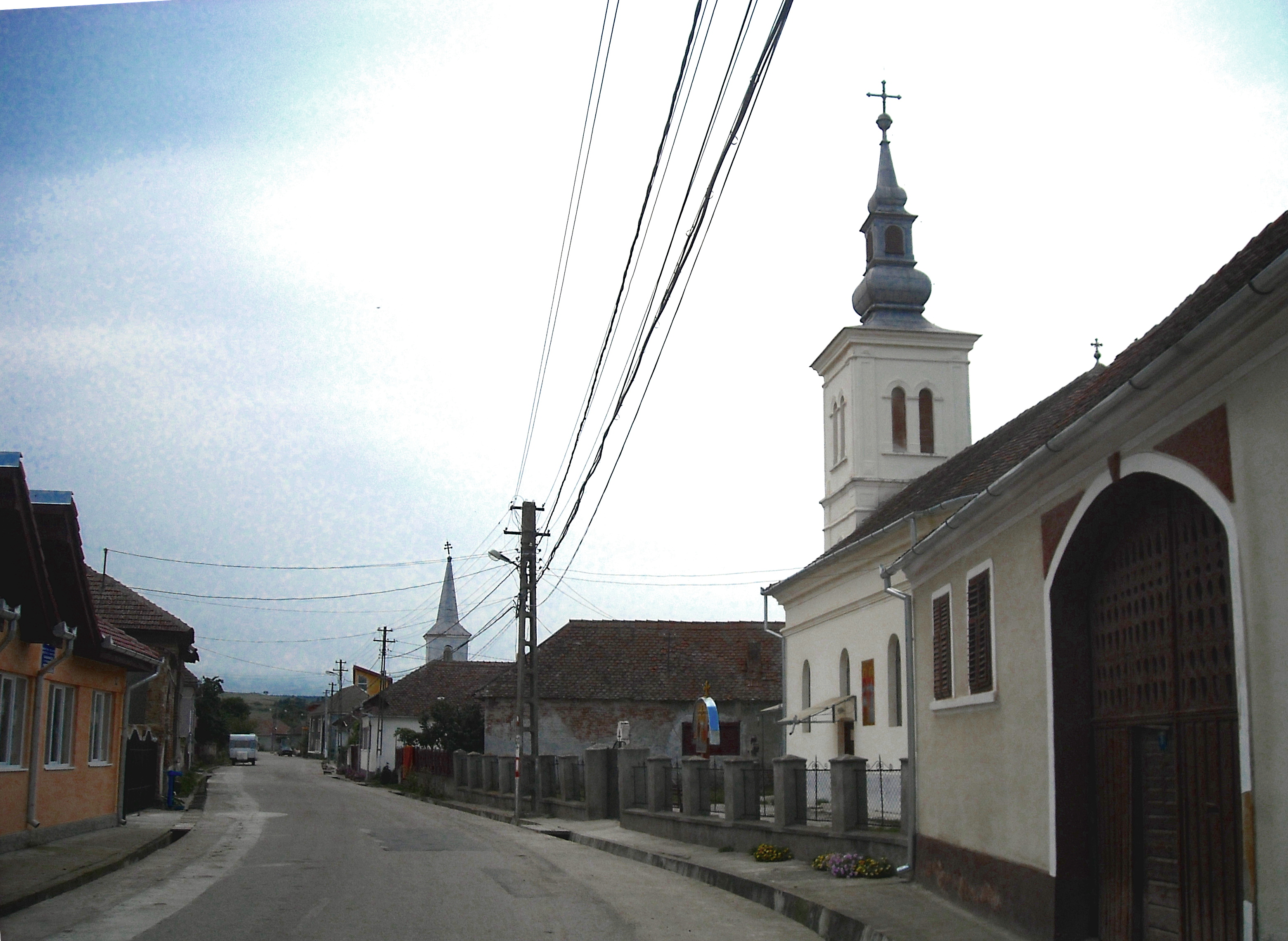 Orthodox and Greek Catholic churches in Mărtineşti, Romania